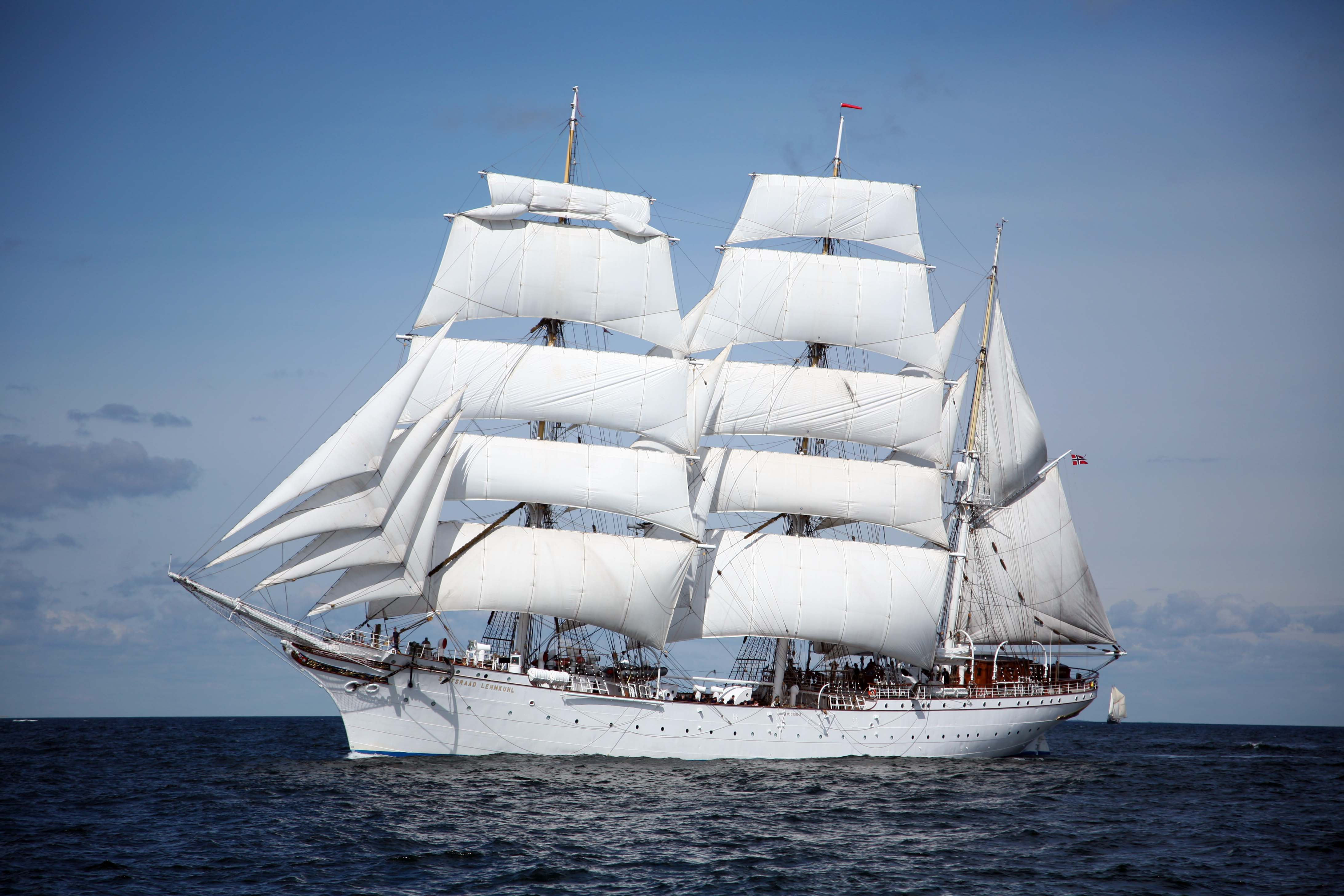 Statsraad Lehmkuhl, hoisting the royal yard, during the Tall Ships' Races in the Baltic Sea, 2007